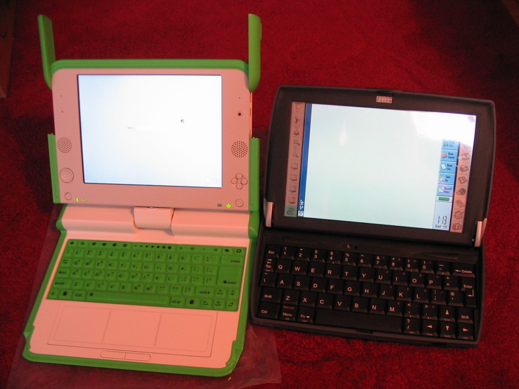 Psion netBook (right)